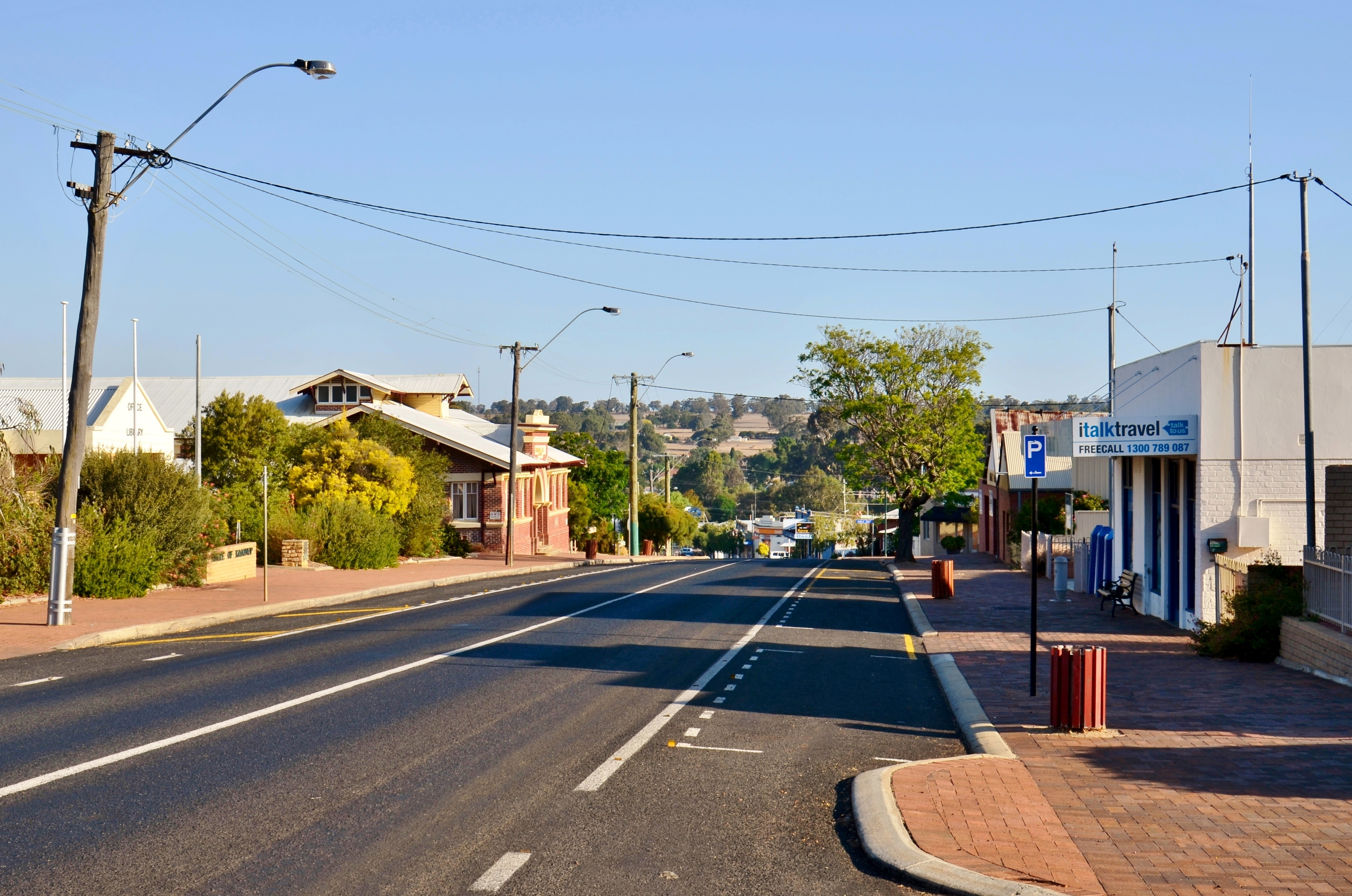 View of Albany Highway, Kojonup, Western Australia